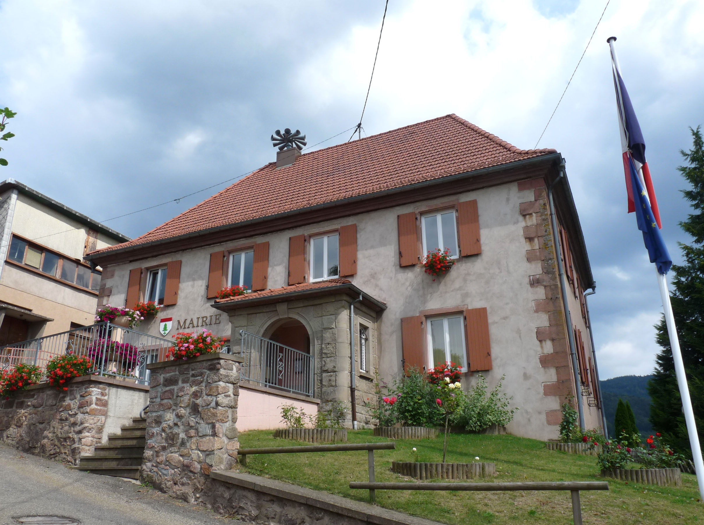 Town hall of Natzwiller (Bas-Rhin)